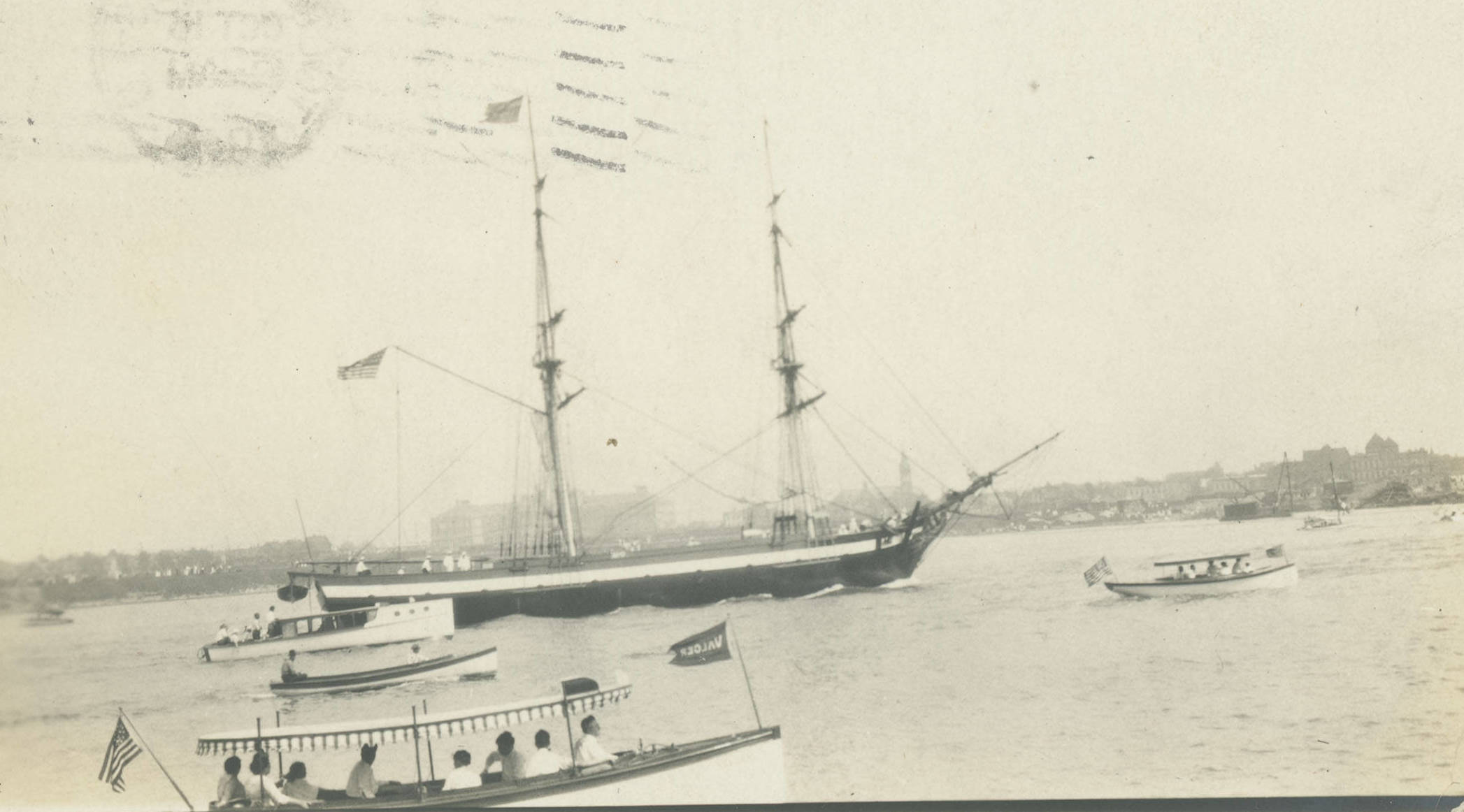 A postcard from the Ken Levin Toledo Poscard Collection, donated by Toledo resident, Ken Levin. The collection contains picture postcards about the Toledo area. Mr. Levin's collection was published by the Toledo Blade in a book entitled "You Will Do Better in Toledo: From Frogtown to Glass City", edited by Sandy and John R. Husman.